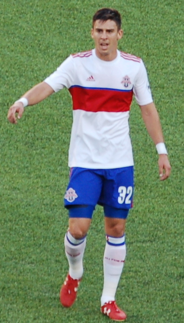 Wesley Charpie (TFC) Taken during a match between FC Cincinnati and Toronto FC II at Nippert Stadium in Cincinnati on June 18, 2016.